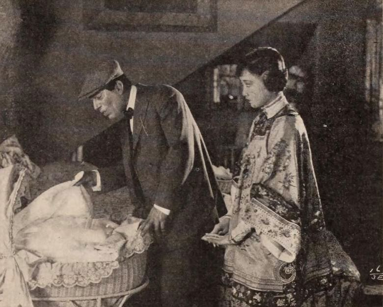 Still from the American drama film Bits of Life (1921) with Lon Chaney and Anna May Wong, on page 71 of the September 17, 1921 Exhibitors Herald.